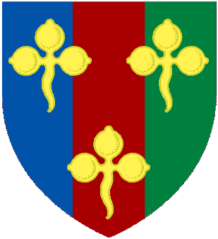 Shield of arms of The Viscount Simonds